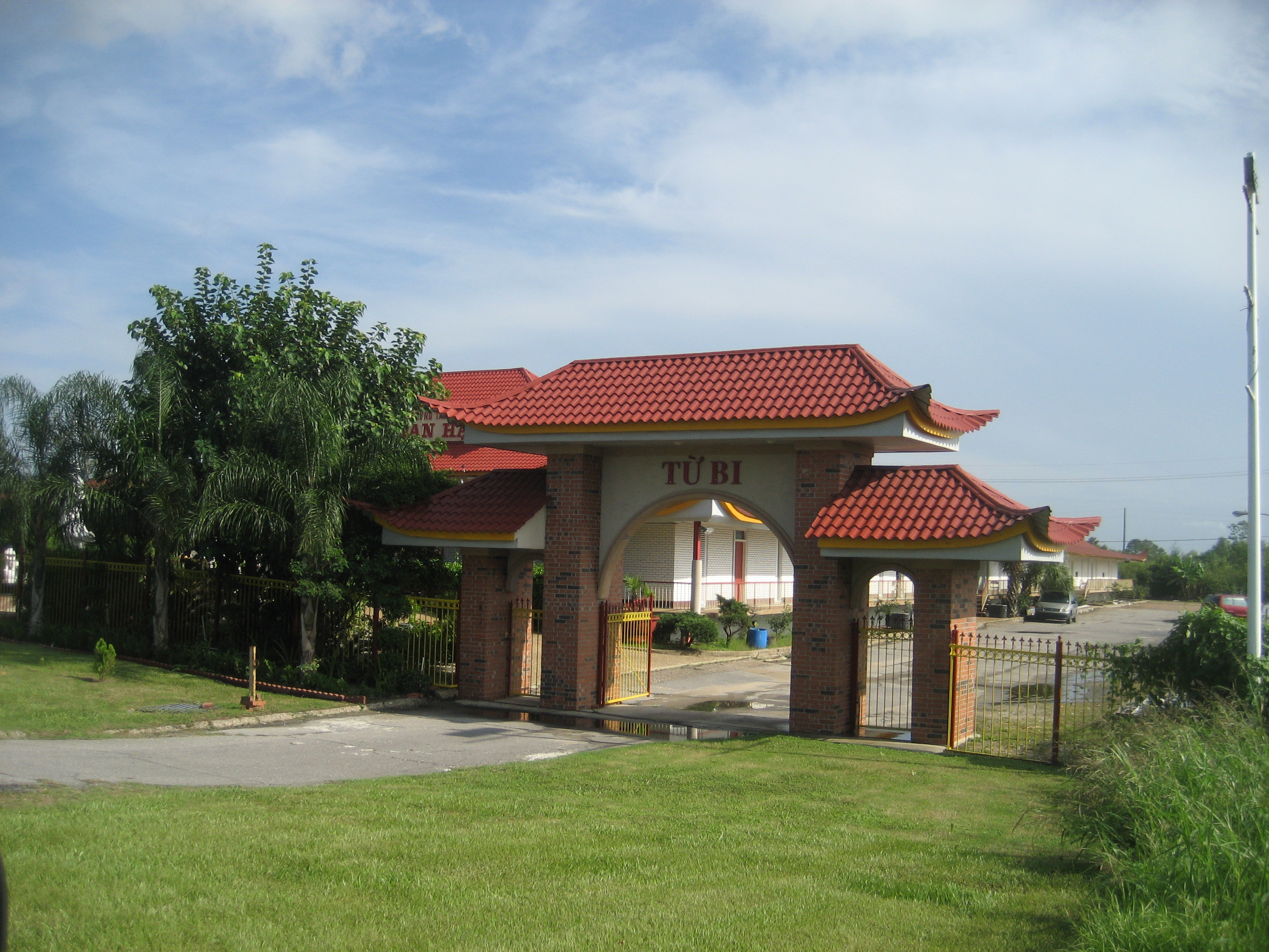 Entrance of Van Hanh Buddhist Temple. "Little Vietnam" section of Eastern New Orleans.